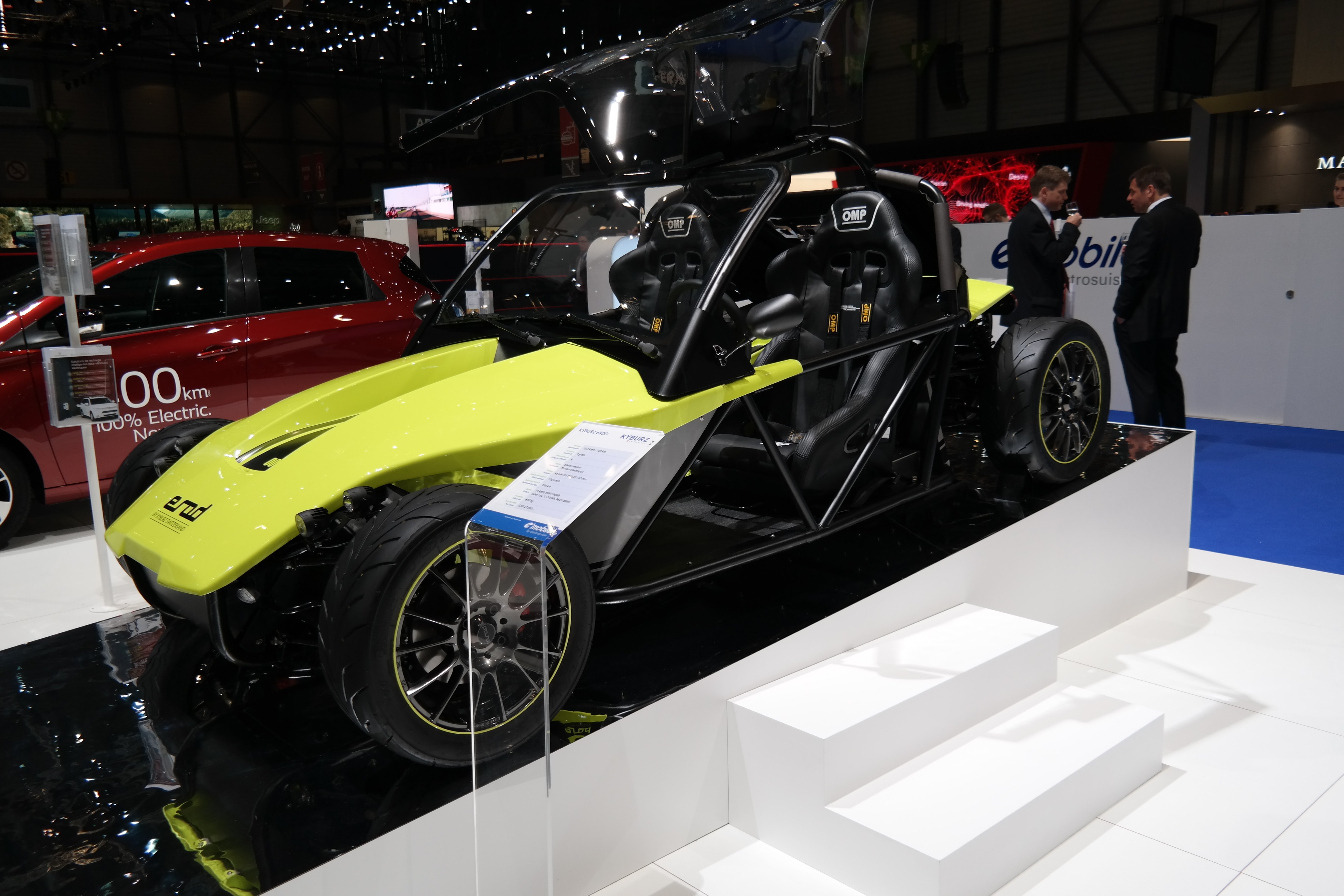 Geneva Motor Show 2017 (photo taken on the first press day)